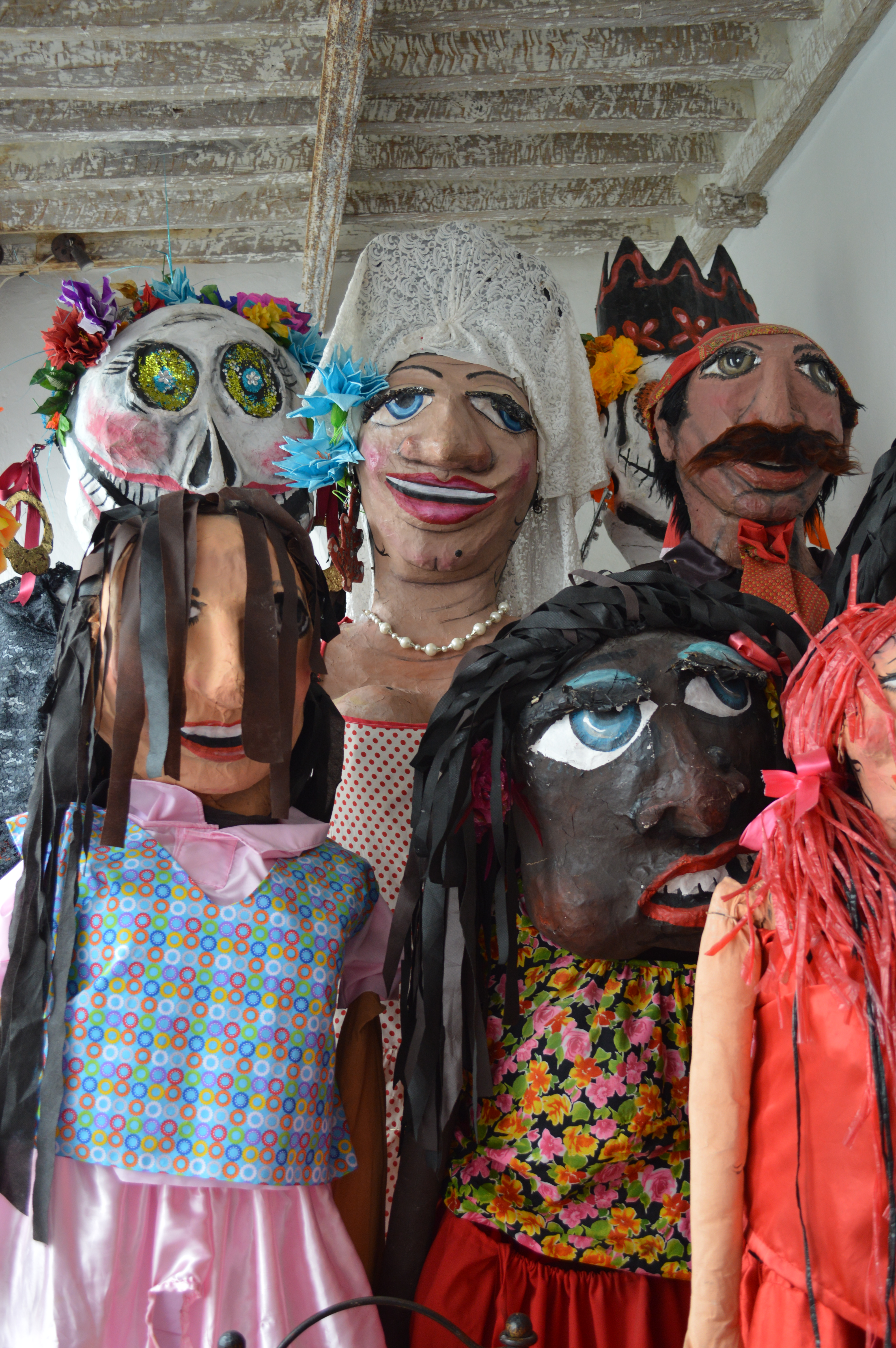 Mojigangas in the home/workshop of Hermes Arroyo in San Miguel Allende, Mexico